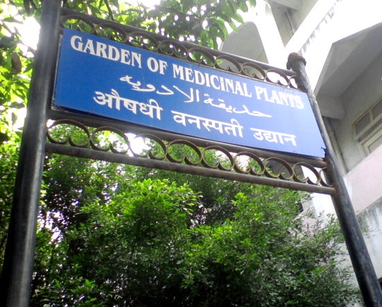 Garden of Medicinal Plants